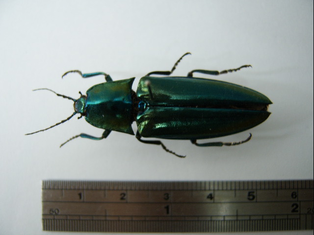 Kerry took this picture at his house on 7 July 2007 Scientific name: Campsosternus auratus Date of collection: Spring 2002 Place of collection: Taipei city, Taiwan